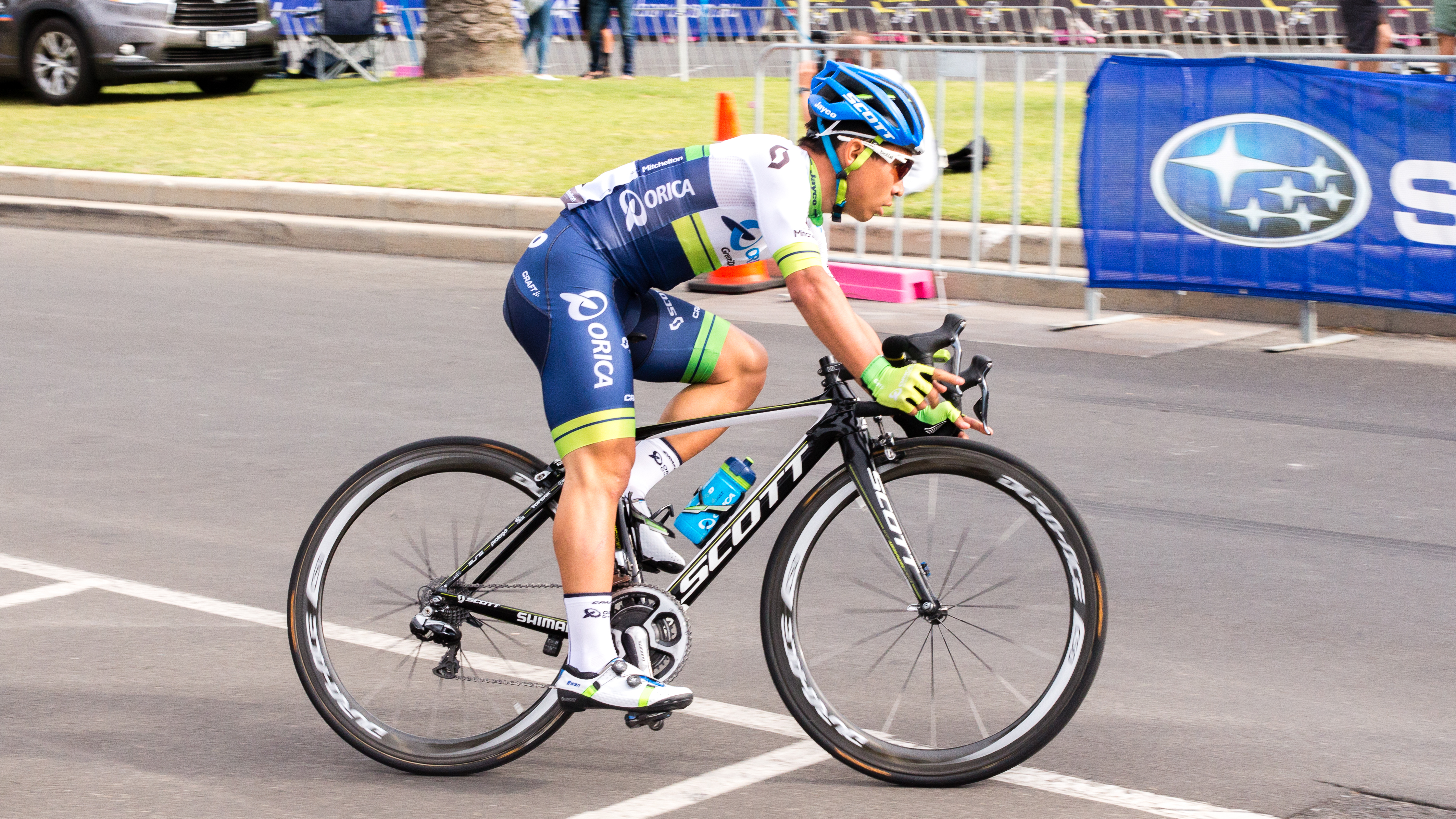 Bay Crits 2016, Stage 1